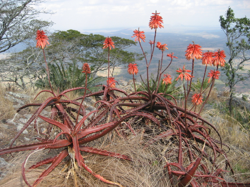 View from Mount Chuala with flowering Aloe cameronii and Encephalartos.